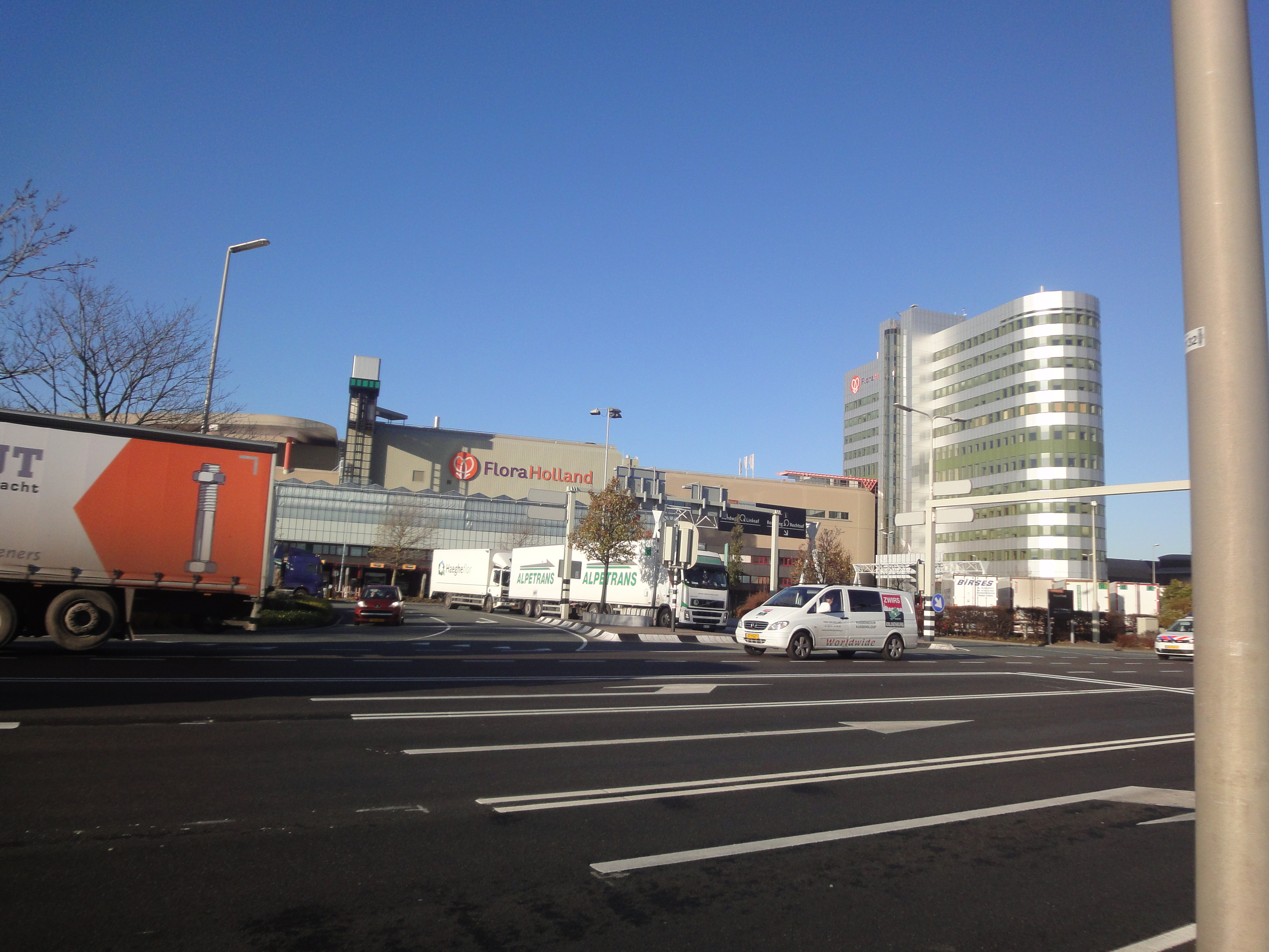 FloraHolland flower auxion in 2012